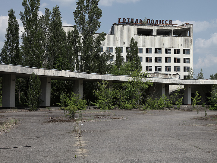 Energetik, the local Palace of Culture, was located directly at Pripyat’s center square, Lenin Square, and nowadays is one of the most visited locations in the world’s most famous abandoned city.